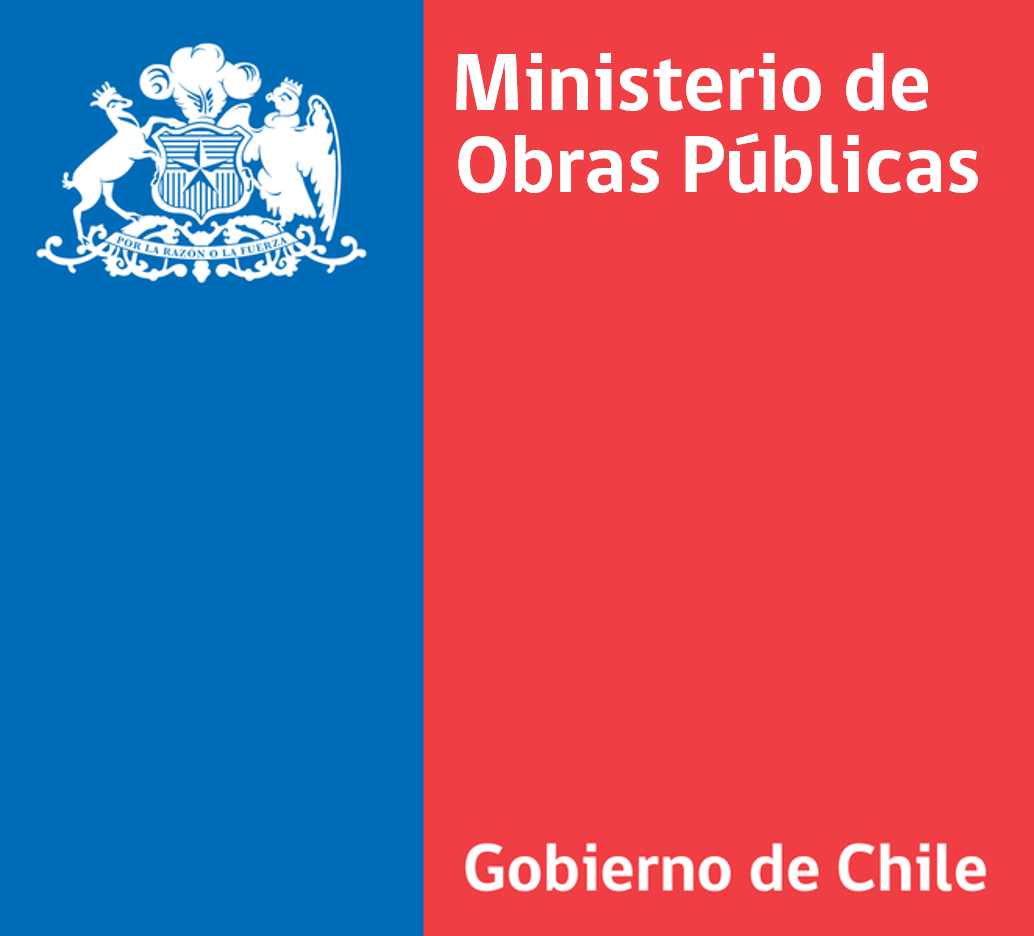 Logo of the Ministry of Public Works.